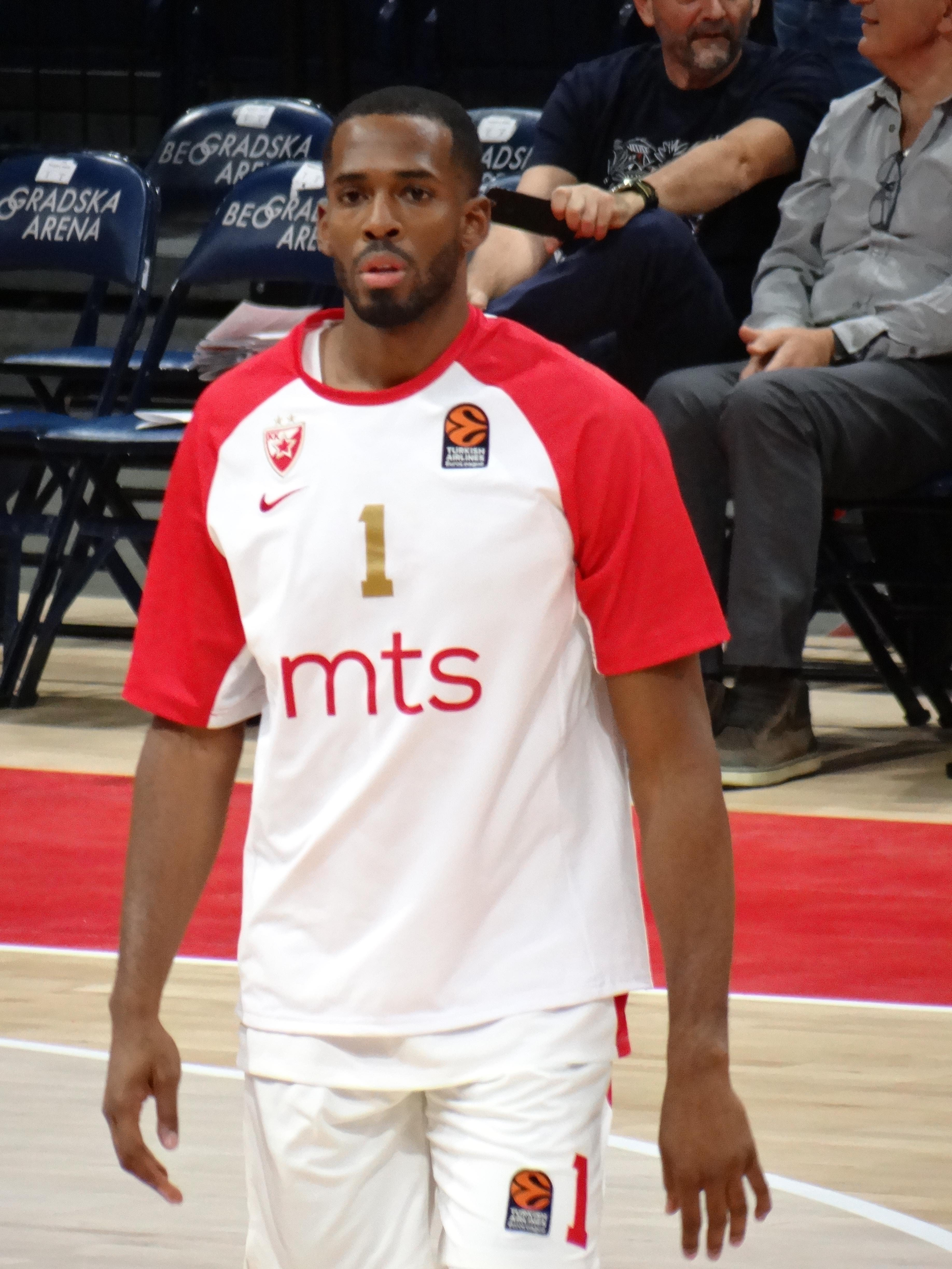 Derrick Brown 1 KK Crvena zvezda EuroLeague 20191010